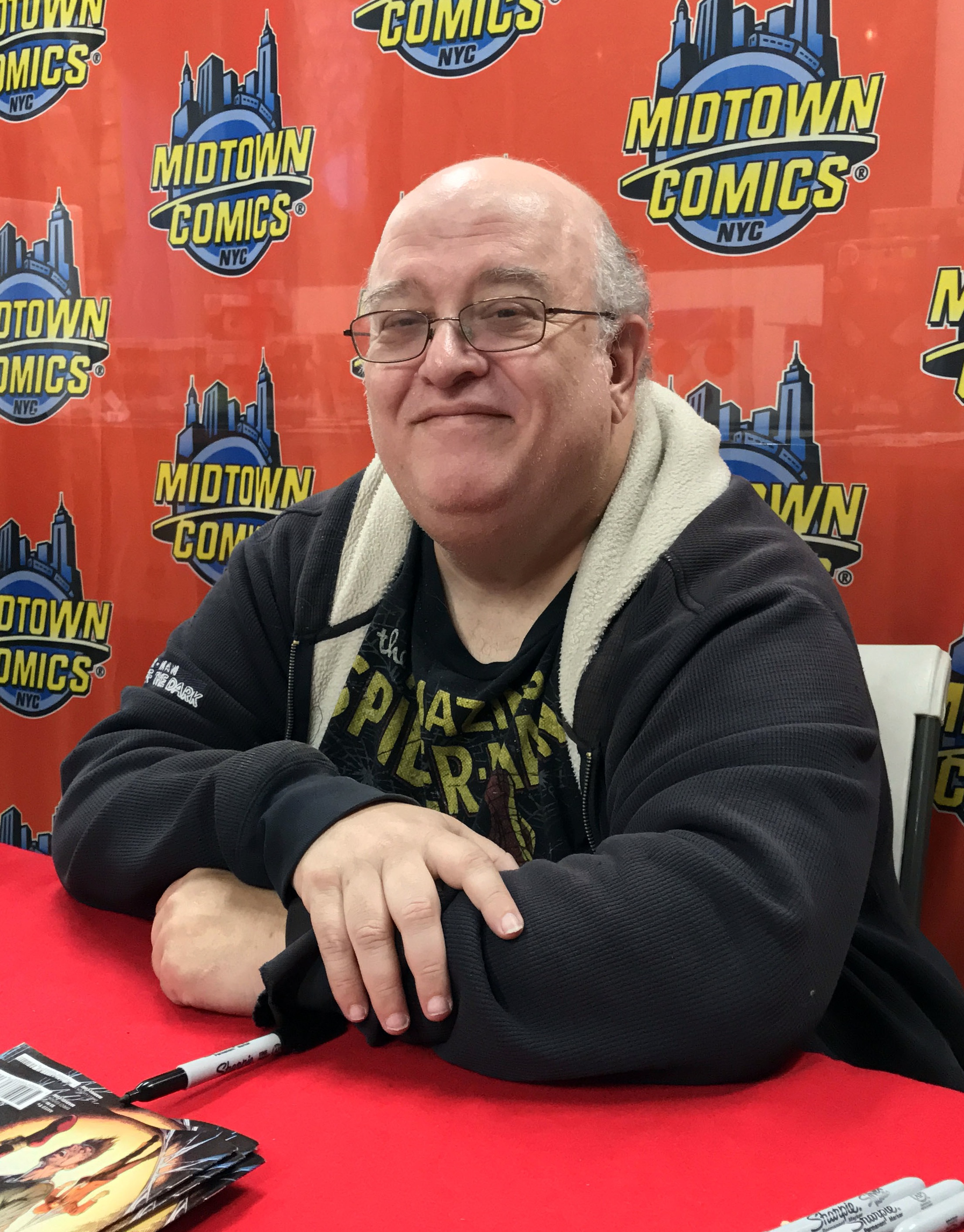 Writer Peter David at an April 27, 2017 signing for Ben Reilly: The Scarlet Spider at Midtown Comics Downtown in Manhattan. This photo was created by Luigi Novi. It is not in the public domain, and use of this file outside of the licensing terms is a copyright violation.